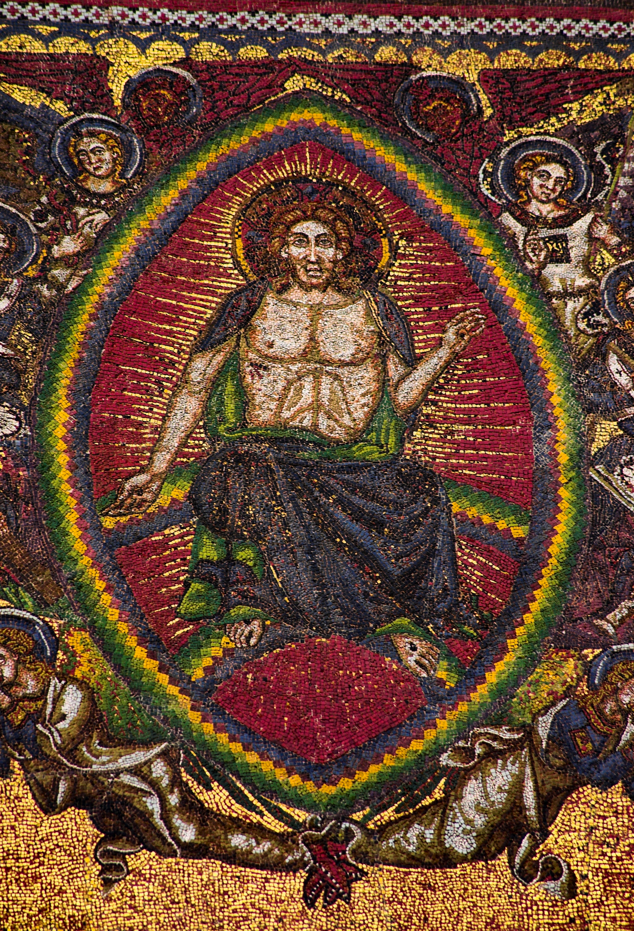 Jesus Christ mosaic, south portal of St. Vitus Cathedral